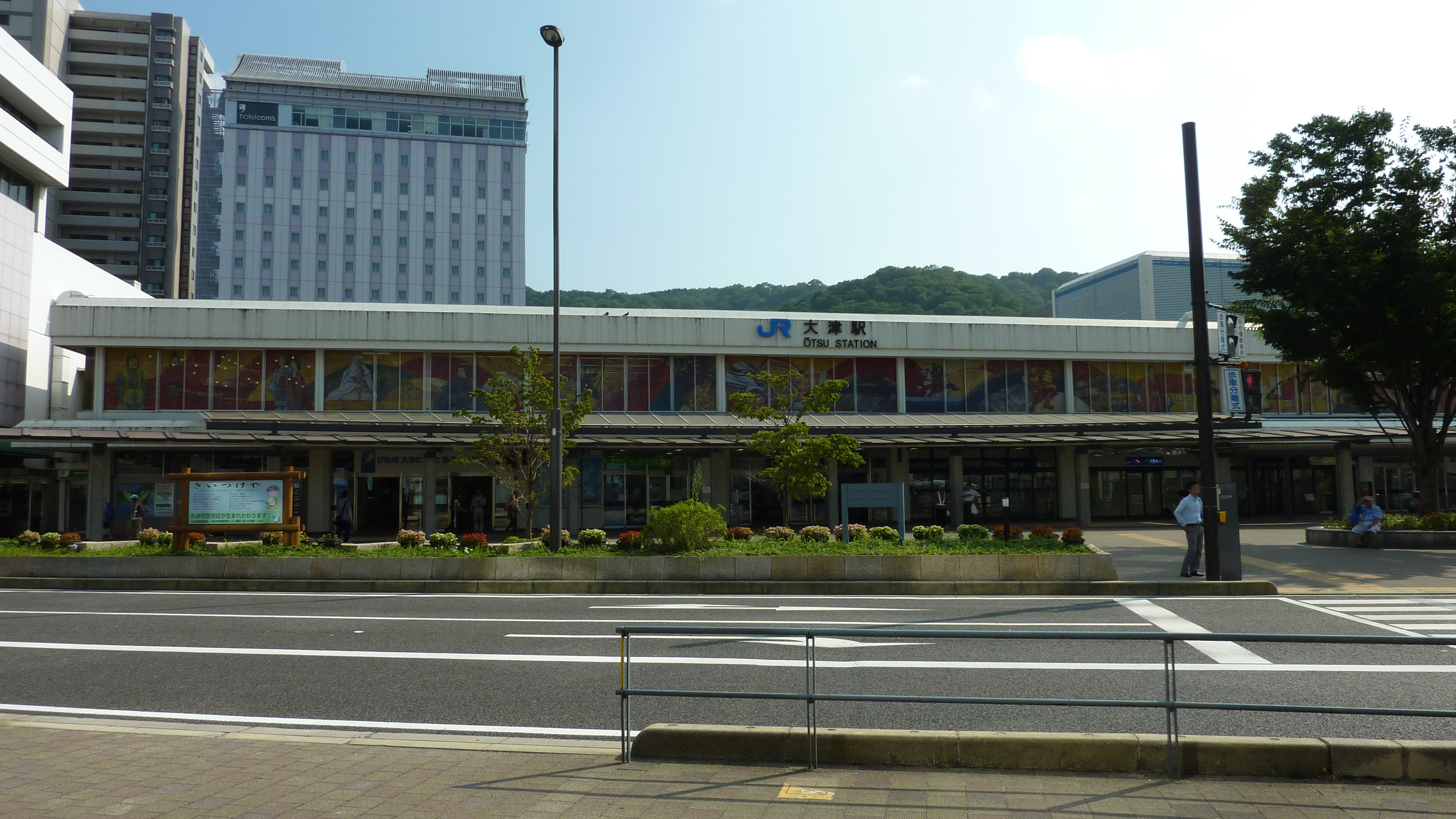 West Japan Railway Tōkaidō Main Line (Biwako Line) Otsu Station Building North Gate